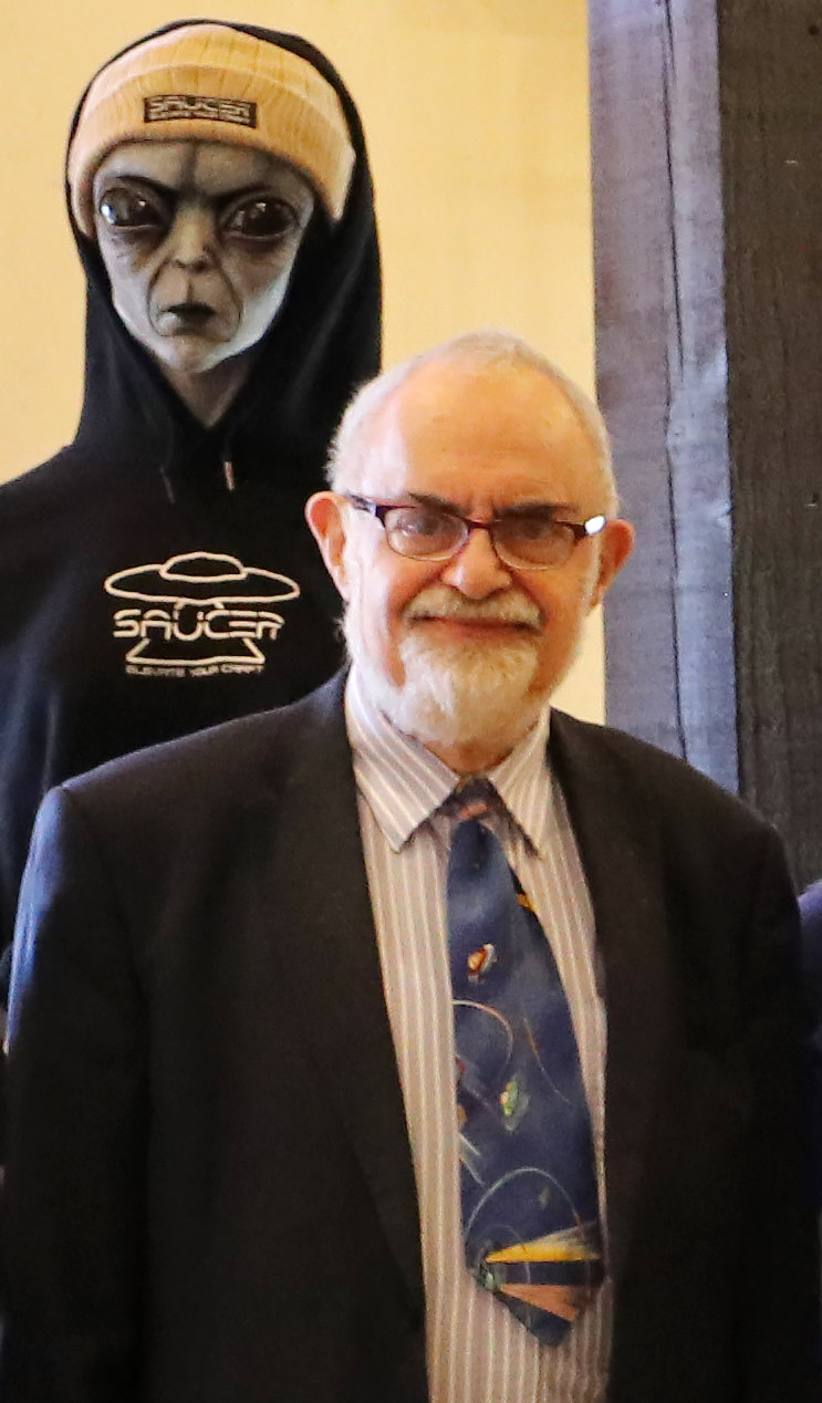 Retired nuclear physicist and professional ufologist Stanton T. Friedman at Alien Snowfest 2019 in Big Bear, CA.